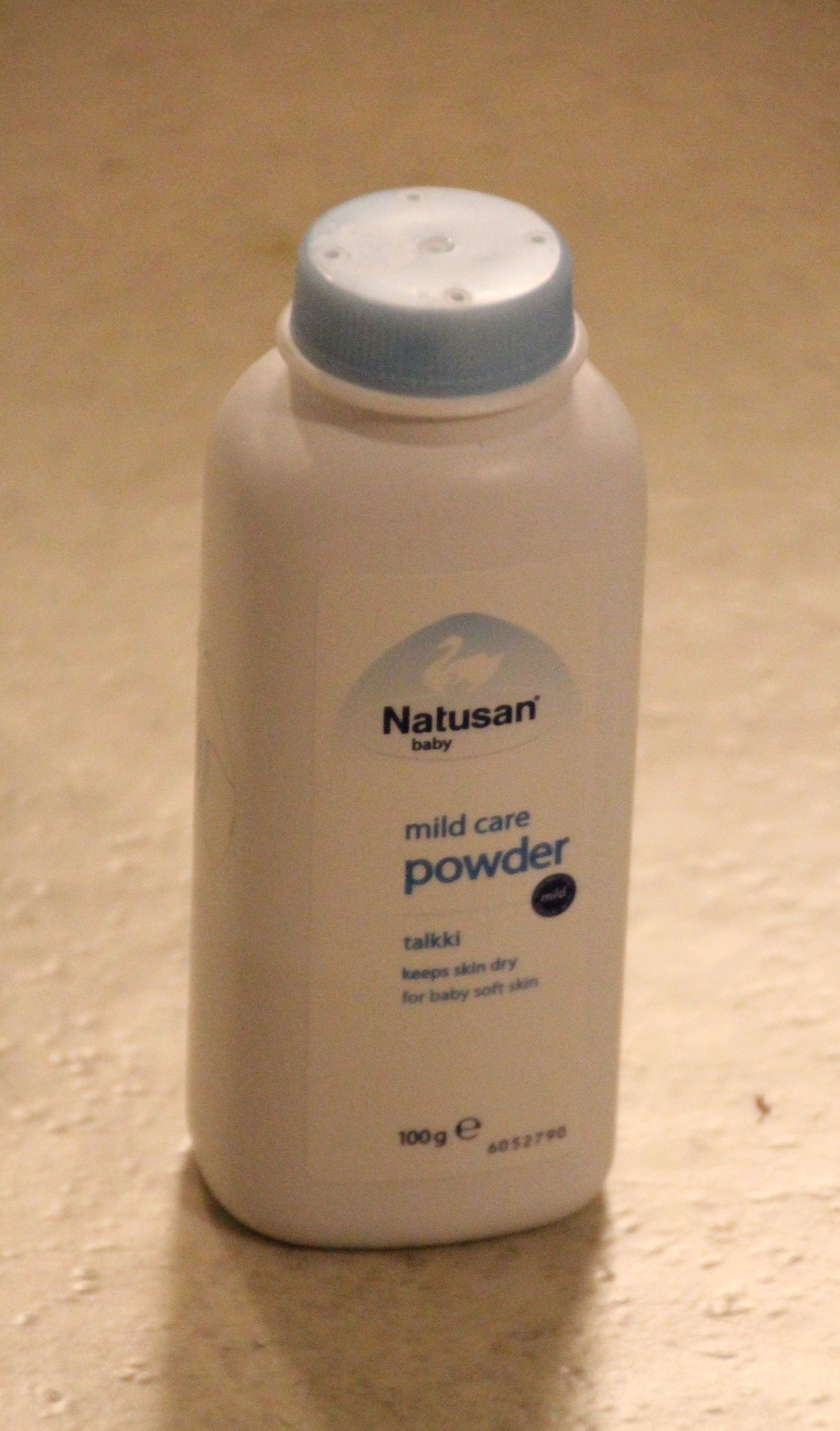 Finnish Natusan-baby talcum powder